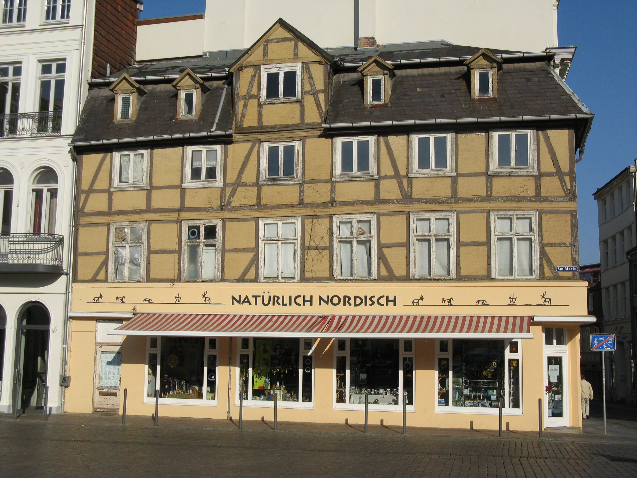 Building at market in Schwerin, Germany - Am Markt 3